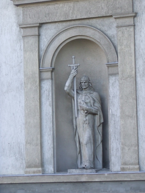 Roman Catholic Cathedral in Satu Mare, Romania